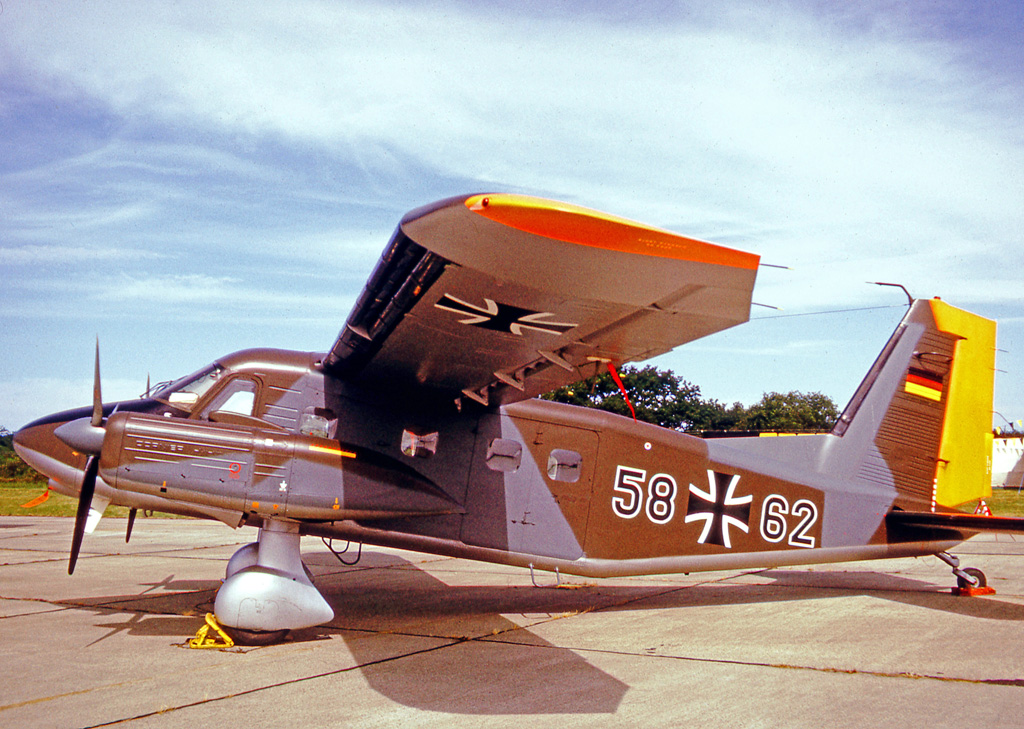 A Dornier Do 28D-2 Skyservant (58+62) of the West German Luftwaffe JaBoG 36 at RAF Greenham Common in 1973.